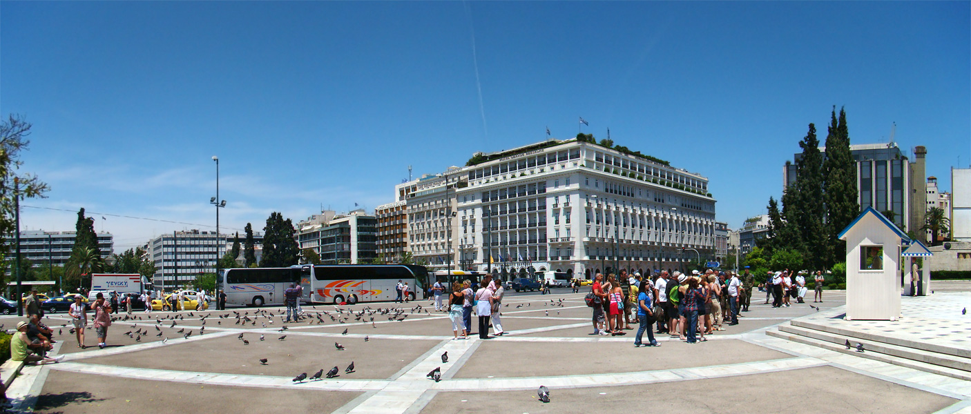 Syntagma Square, Athens, Greece. Crowd gathering for the changing of the guard in front of the Hellenic Parliament.